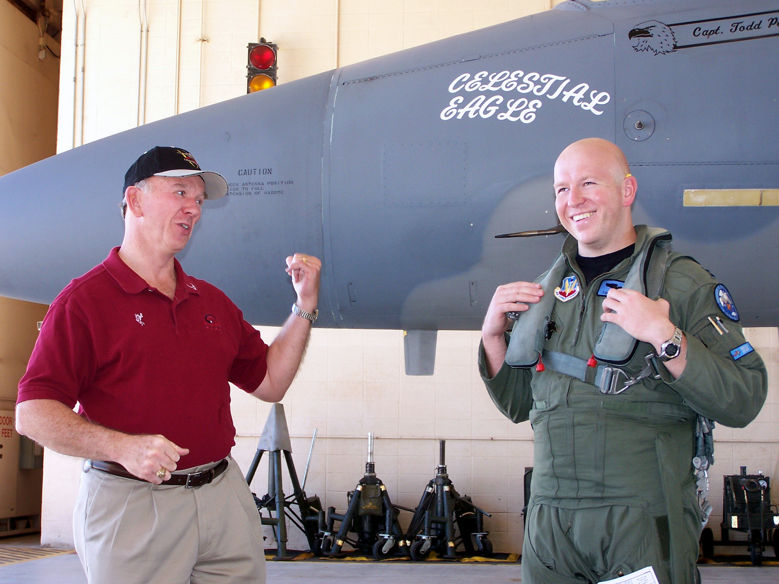 Celestial Eagle: Historic anti-satellite mission remembered Retired Maj. Gen. Doug Pearson (left) and Capt. Todd Pearson joke wit one another on September 13, 2007, prior to Captain Pearson taking off on the Celestial Eagle remembrance flight at Homestead Air Reserve Base, Fla. Captain Pearson was a 390th Fighter Squadron pilot from Mountain Home Air Force Base, Idaho. General Pearson flew the same F-15A Eagle (76-0084), by 2007 assigned to the Florida Air National Guard 125th Fighter Wing, exactly 22 years prior while accomplishing the only successful satellite kill by an aircraft-launched missile in history.